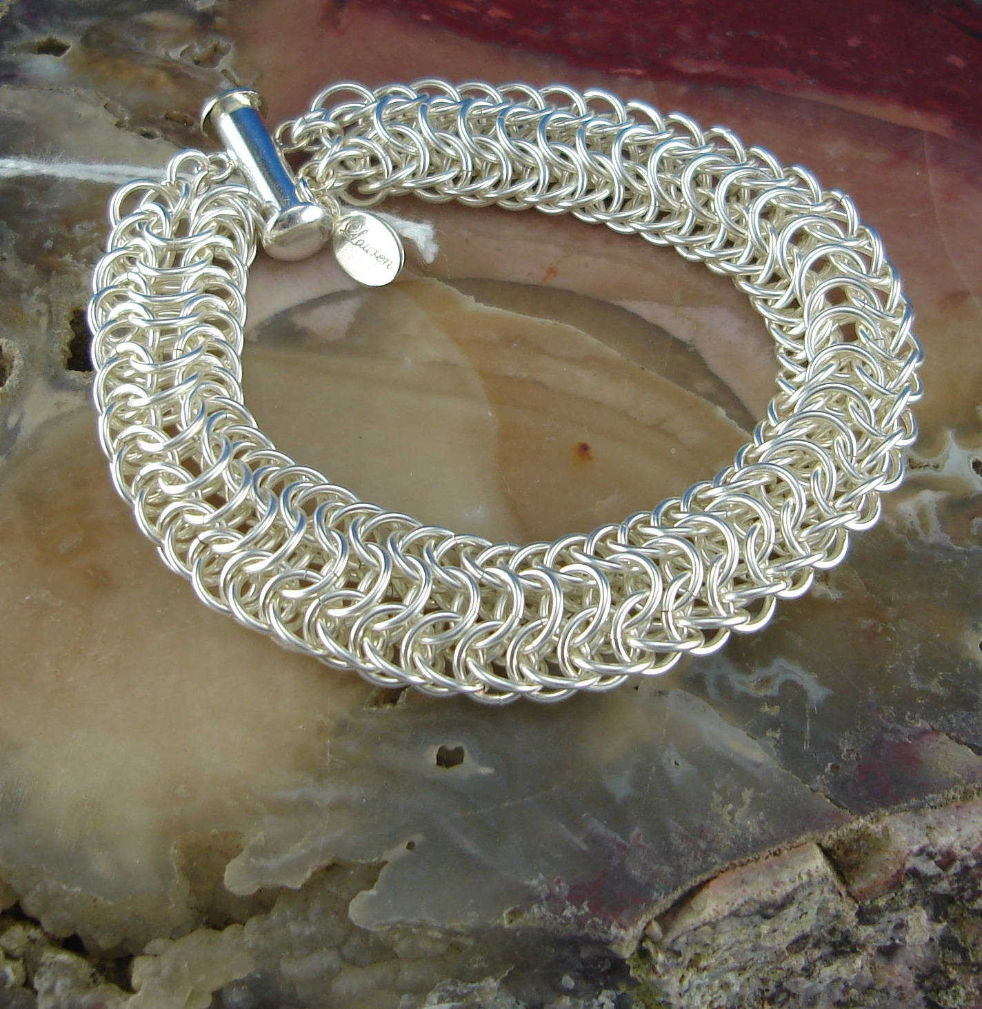 ChainMaille Persian dragonscale weave. Made from non-tarnish silver Artistic Wire Jump Rings from Beadalon.